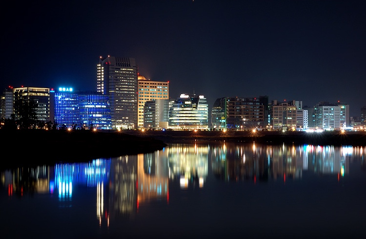 The night scene of Taipei Neihu Technology Park, adjacent to Keelung River.中文（台灣）: 台北內湖科技園區夜景，毗鄰基隆河。